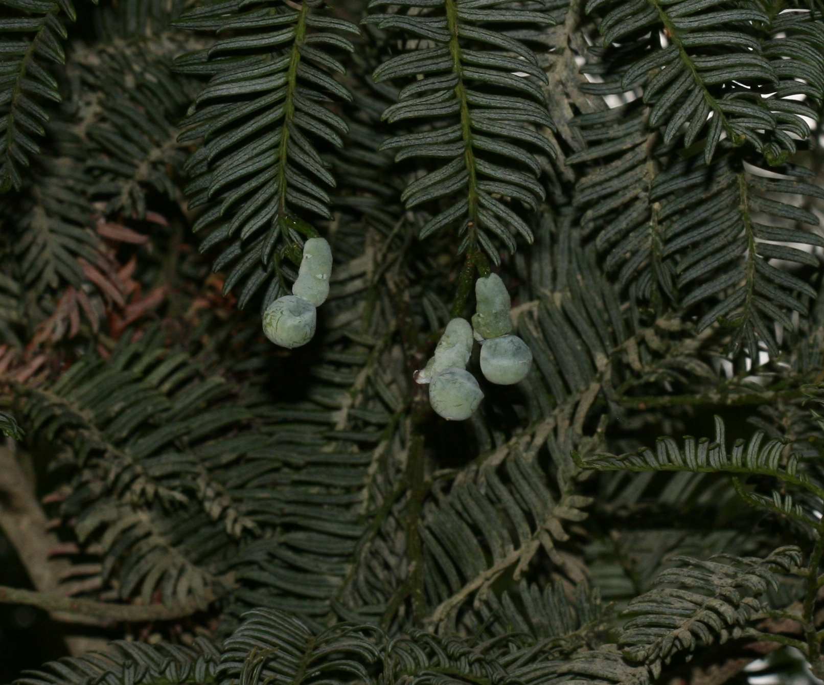 Conifer found only on the island of New Caledonia. Royal Botanic Gardens, Edinburgh, Scotland